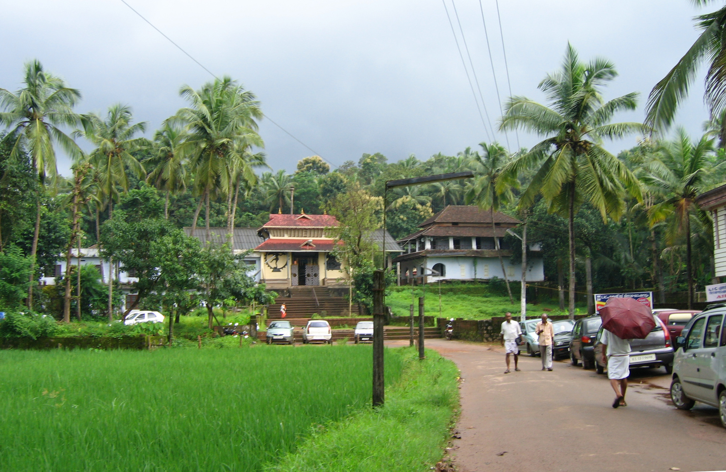 Mattannur Mahadeva Temple, Kerala